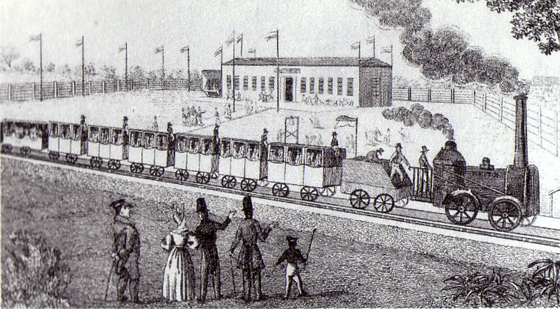 Temporary station restaurant at Althen with a steam coach (locomotive BLITZ) departing in the direction of Leipzig, Germany